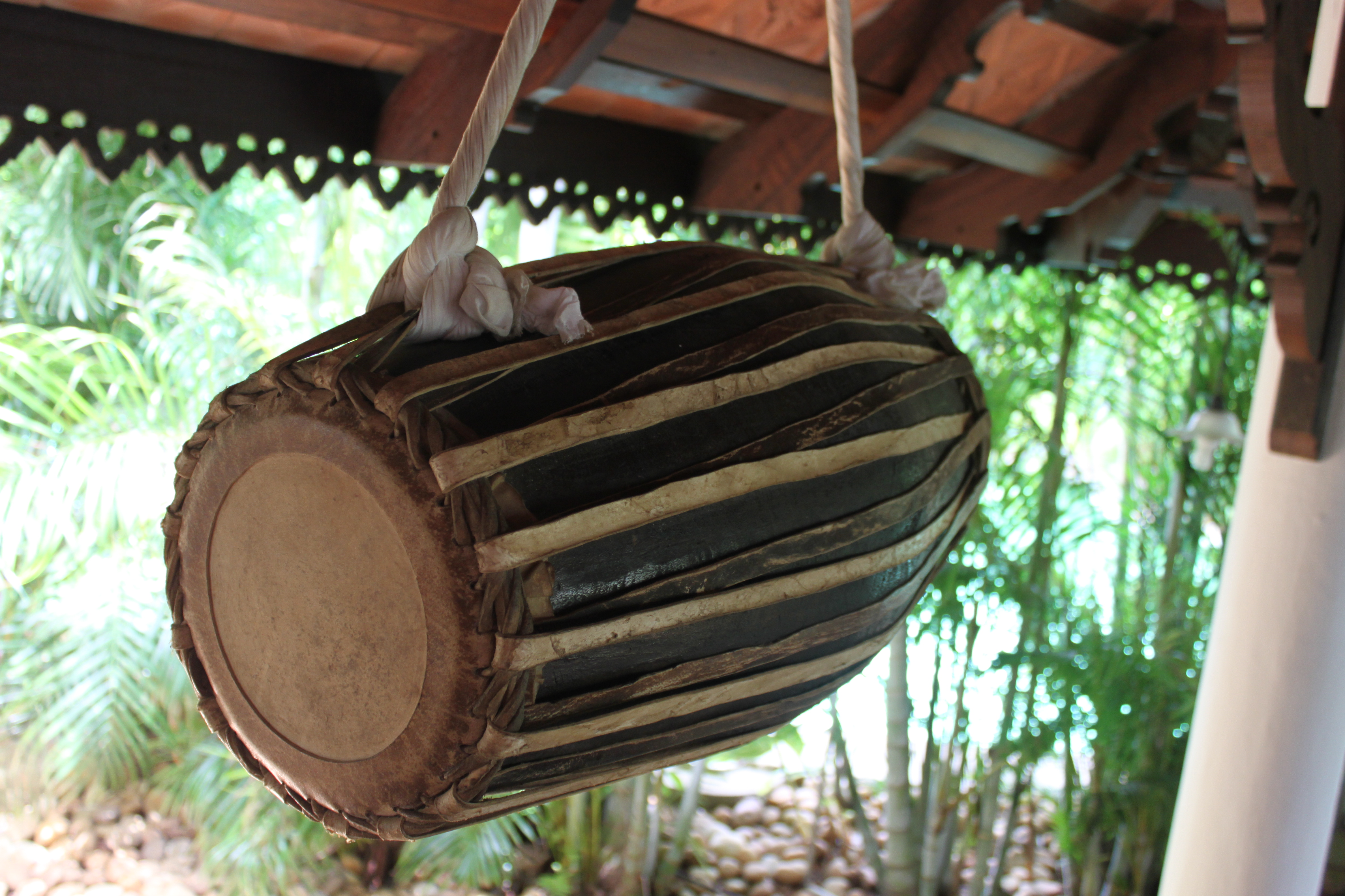 maddalam - musical instrument